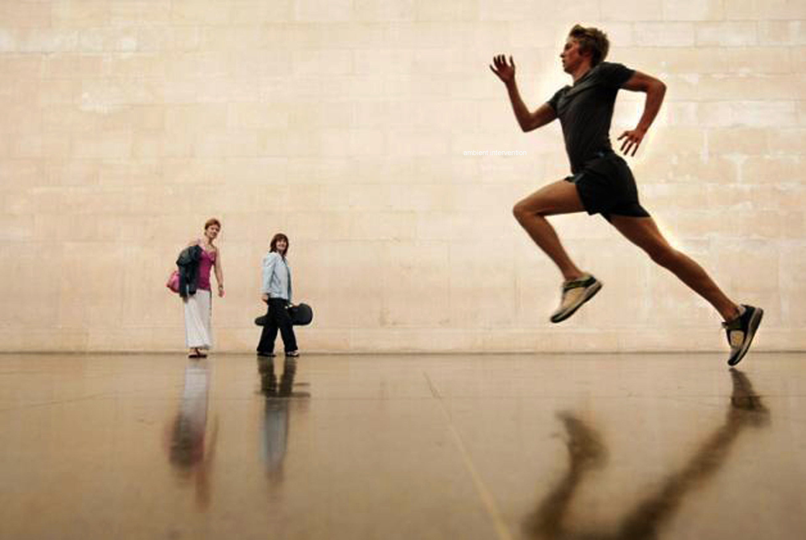 Runners in the Tate